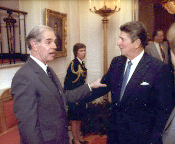 Edward C. Merrill, Jr with Ronald Reagan